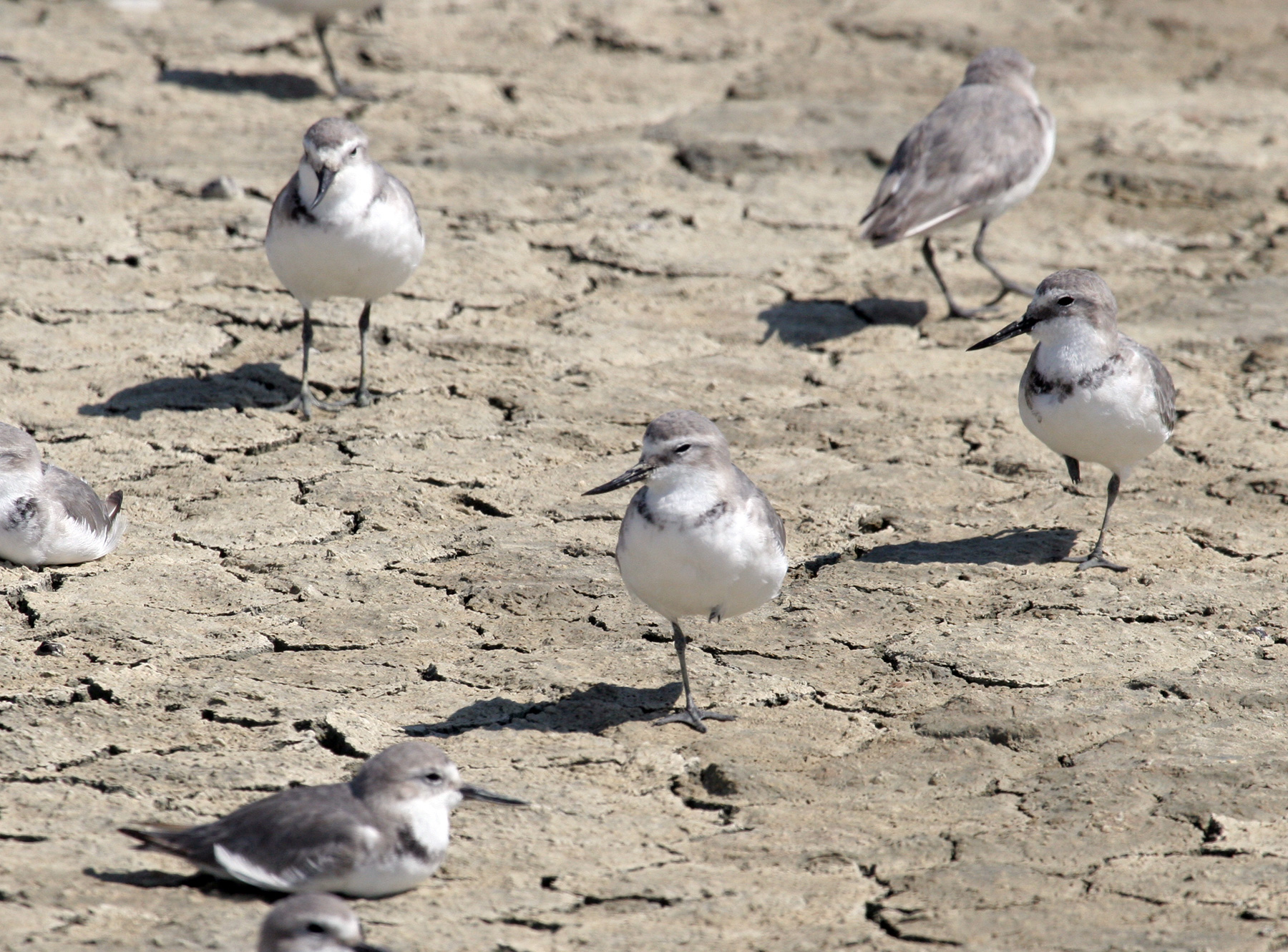 Wrybills (Anarhynchus frontalis) on mud flat, Firth of Thames, Mirada, New Zealand